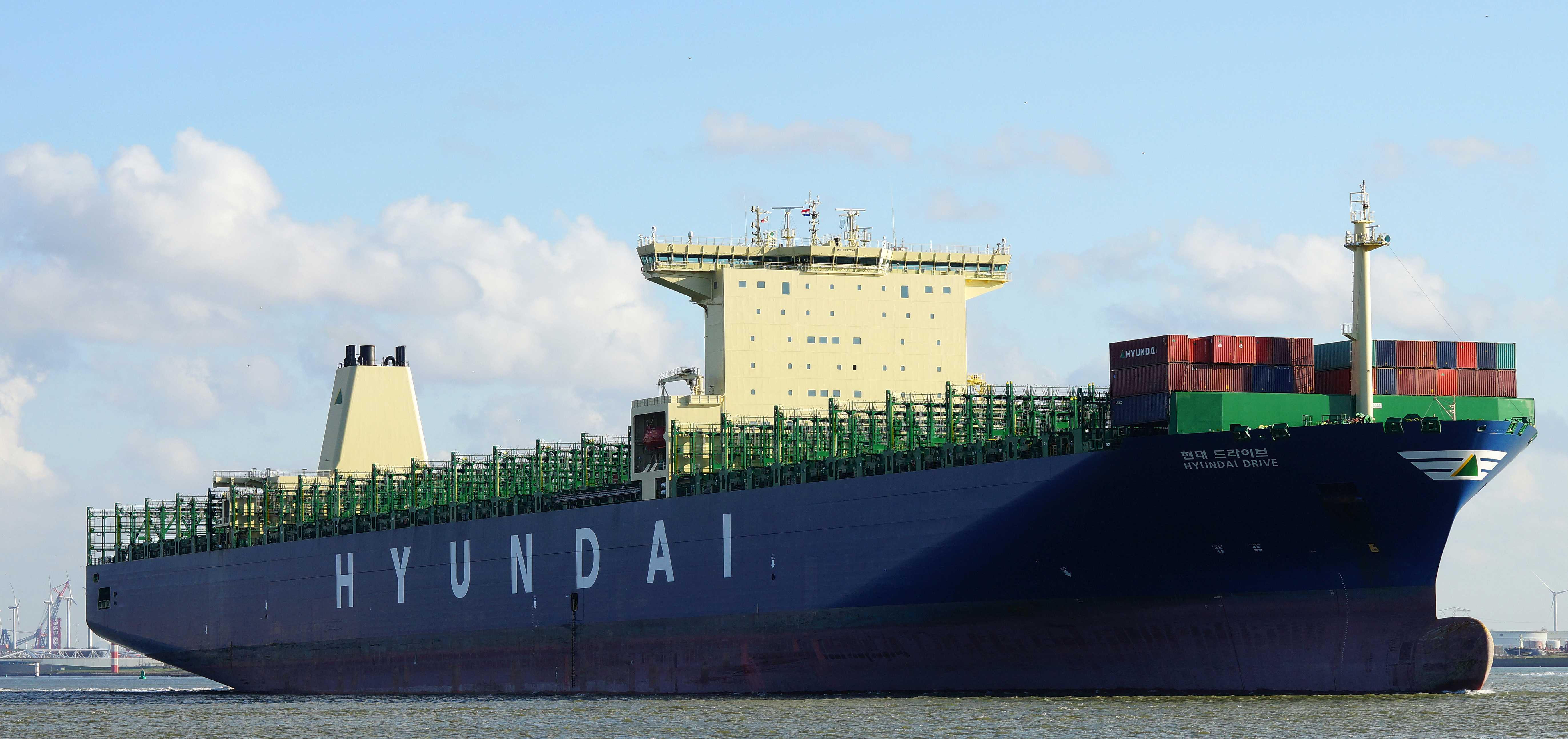 The Container Ship Hyundai Drive, Nieuwe Waterweg - Rotterdam.